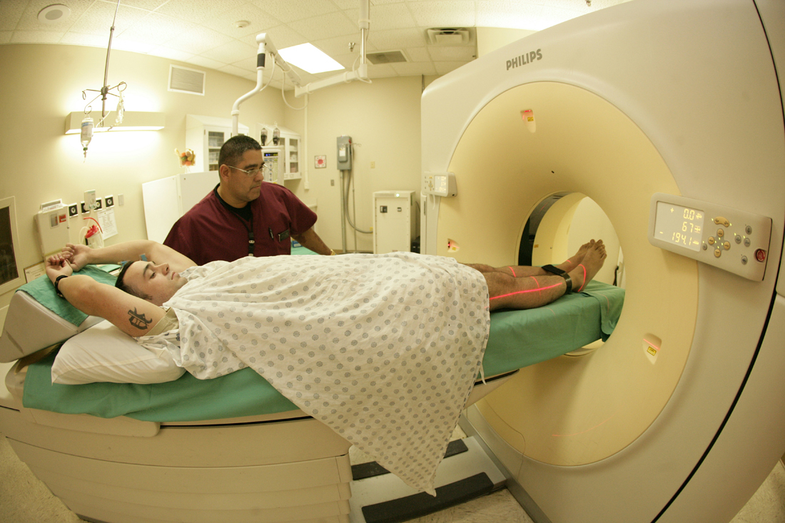 Carlos Jorge, Fort Sill Reynolds Army Community Hospital CAT scan technician, slides Spc. Lane Penn, Fort Sill WTU Soldier, into the entrance of the CAT scan machine. Kevin Young, Fort Sill Cannoneer. See more at Army.mil